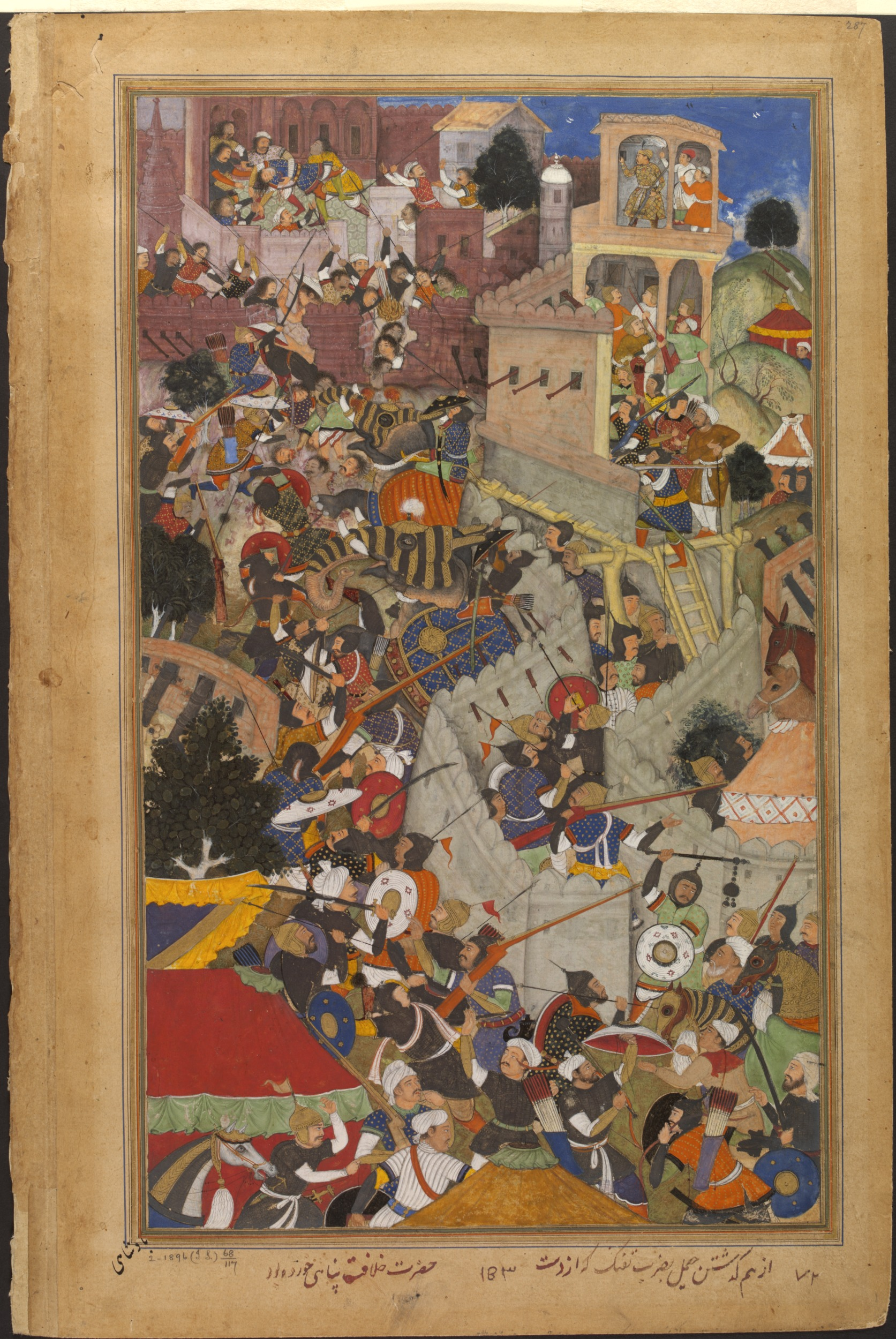 The fall of the Rajasthani fortress of Chitor in 1568, when the Mughal army succeeded in approaching the ramparts by constructing covered defences. As Akbar surveyed the battle one evening, he took aim with his gun at a figure in the fort whose studded coat indicated that he was a leading enemy soldier. The shot killed the man, who was discovered to be the Rajput hero Jaimal. The covered lines of attack built by the Mughals allow the army, including armoured elephants (centre left) to approach the walls of the fortress (shown upper left). Akbar is shown top right, holding the gun called Sangram with which he has just shot a figure in a studded coat. The figure is Jaimal, the general of the enemy army, and the fortress submitted soon afterwards to the Mughal forces. V&A Museum